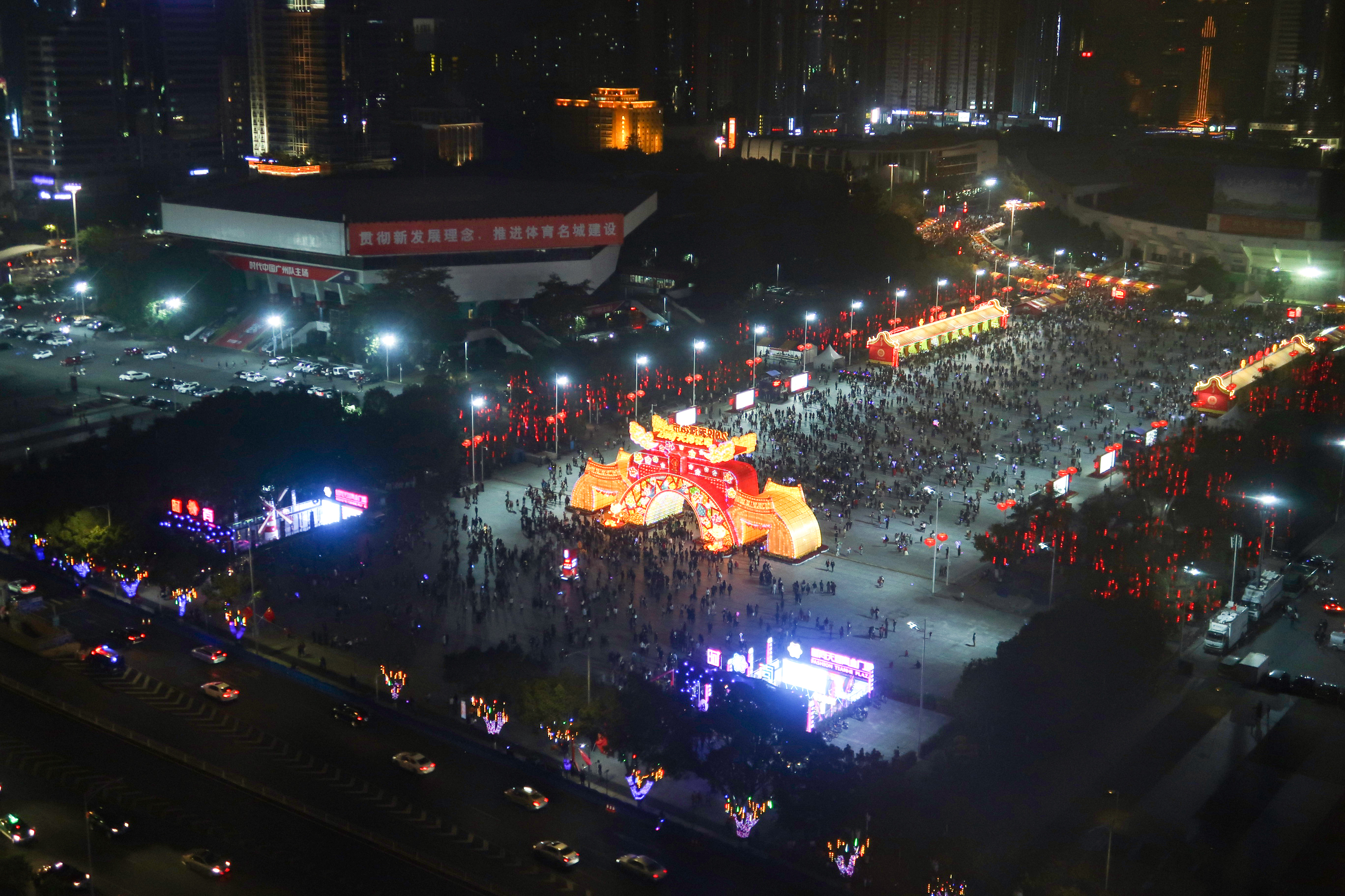 Tianhe Flower Market